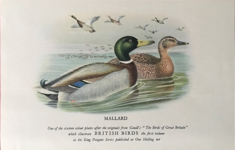 Picture of a mallard, taken by King Penguin Books No. 1, Penguin, 1939, painted by John Gould (+ 1881)